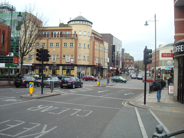 Wimbledon Bridge / Wimbledon Hill Road, London SW19